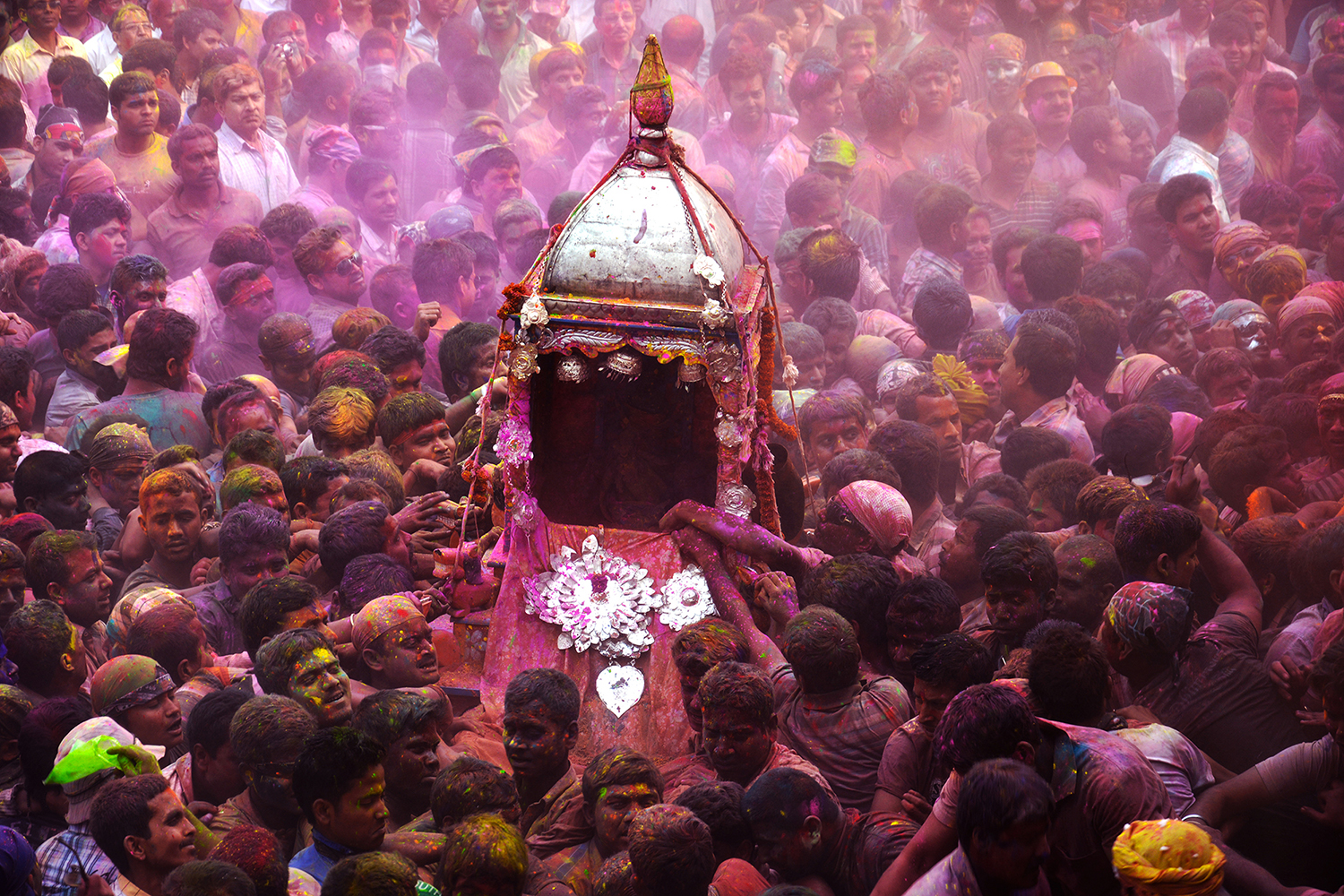 Devotees carry the palanquins of Lord Krishna and Ghunusa towards the main gate of the Satra for their trip to Ganak Kuchi Satra. (HOLI AT BARPETA) assam